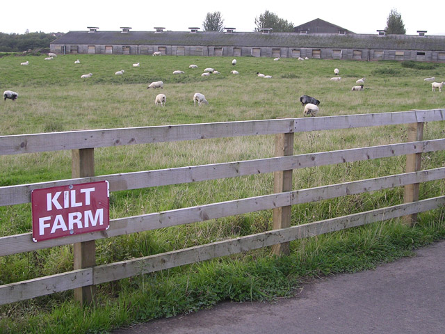 Kilt Farm, Abronhill This must be where they breed kilts.